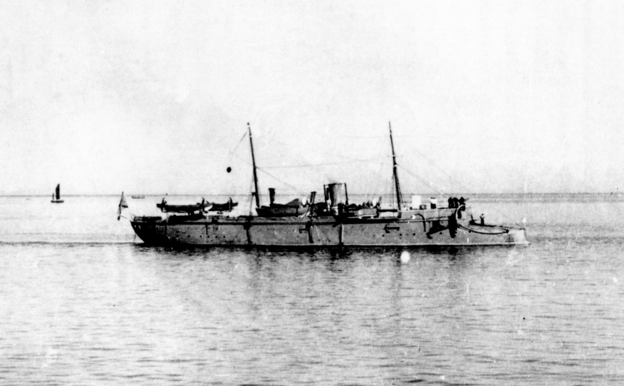 The Imperial Russian seagunboat «Bobr».